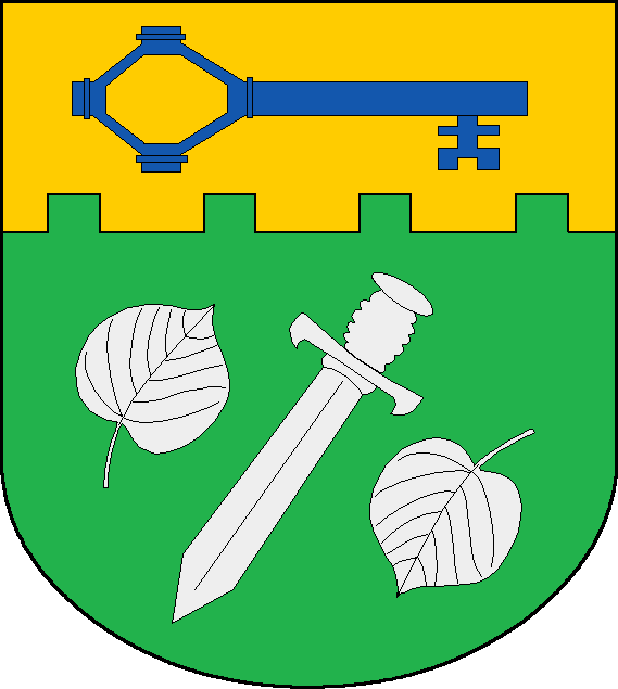 Coat of arms of the municipality Sterley in Schleswig-Holstein, Germany.